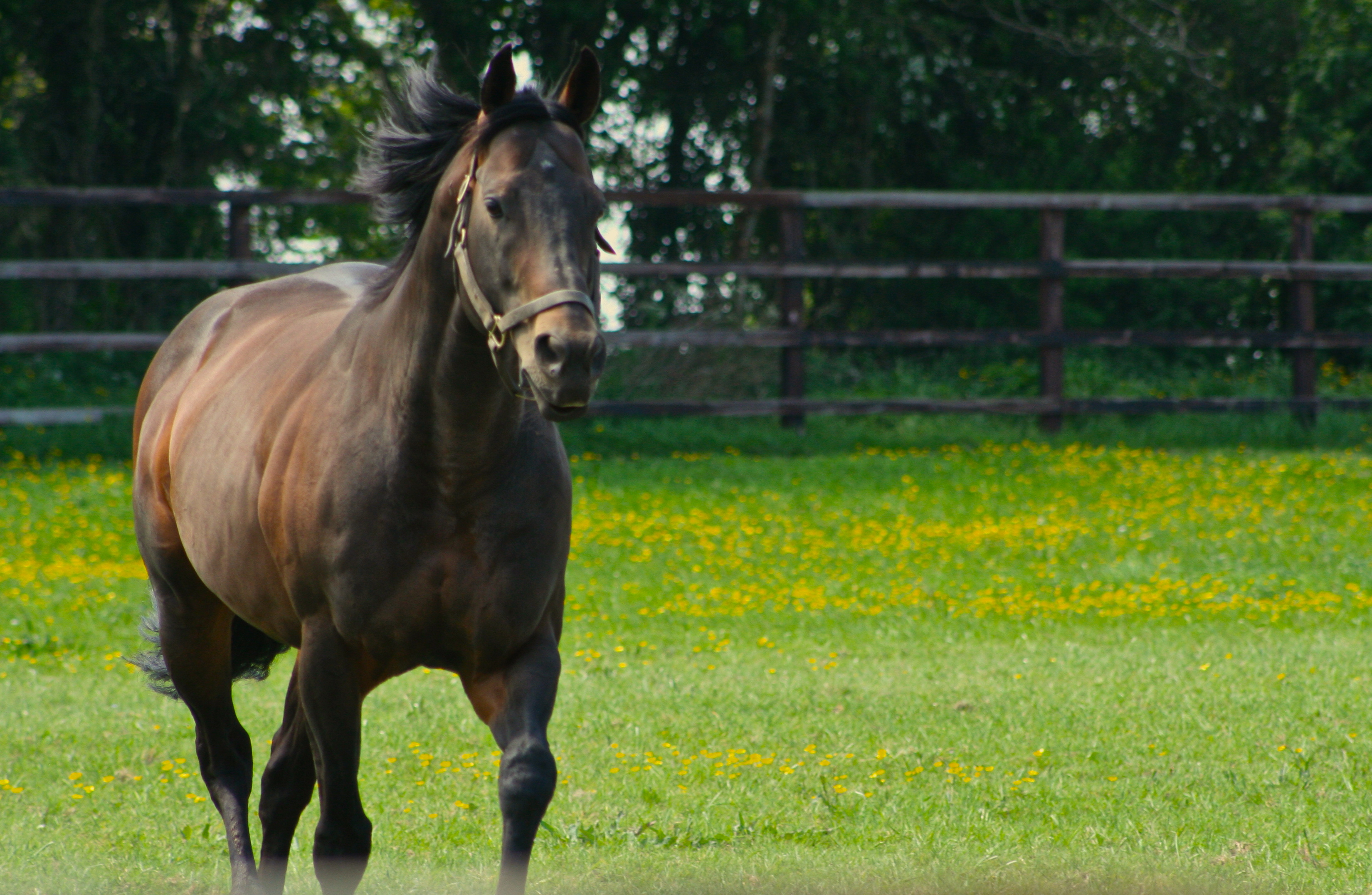 Stallion Invincible Spirit at International Stud, Kildare, Ireland.